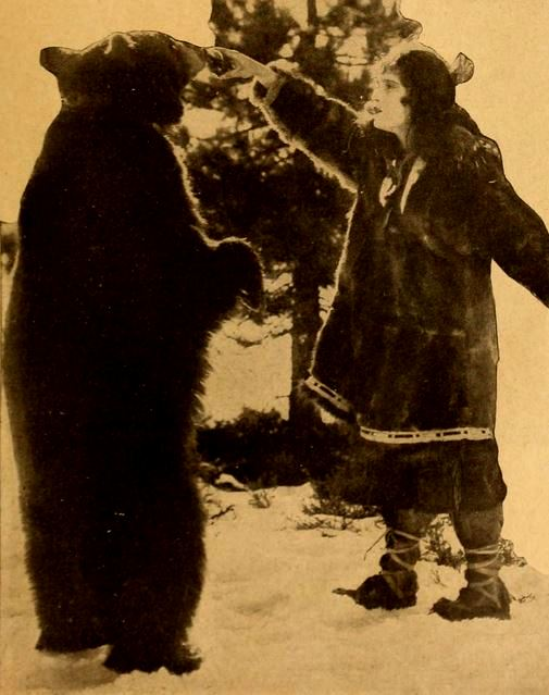 Still from the American film The Courage of Marge O'Doone (1920) with Pauline Starke, from an adaption of the film on page 71 of the July 1920 Motion Picture Magazine.